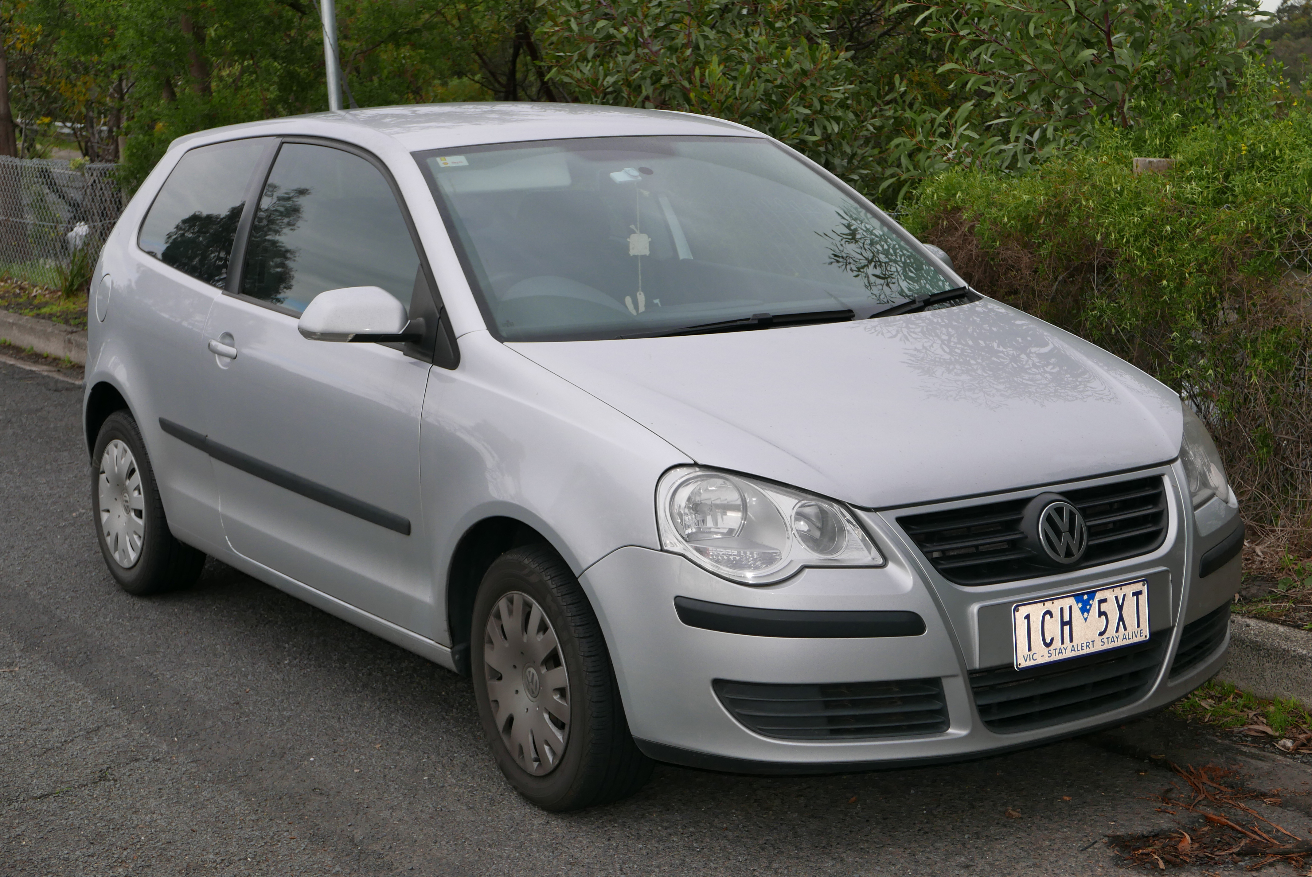 2008 Volkswagen Polo (9N3 MY08) Club 3-door hatchback. Photographed in Kew, Victoria, Australia. Vehicle registration enquiry resultsJurisdictionVictoriaRegistration1CH5XTChassis codeWVWZZZ9NZ8U007662Engine codeBUD213320Compliance date2008-02Year of manufacture2008